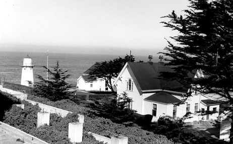 Public Domain statement here; The Point Montara Light is a lighthouse in Montara, California, United States, on the southern approach to the San Francisco Bay, California approximately 25 miles south of San Francisco.